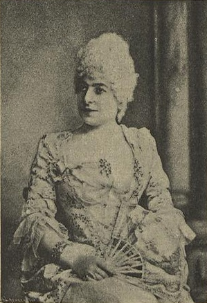 Photograph of opera singer Hariclea Darclée in the role of Manon, Saint Charles Royal Theatre, Lisbon, Portugal, 1896.